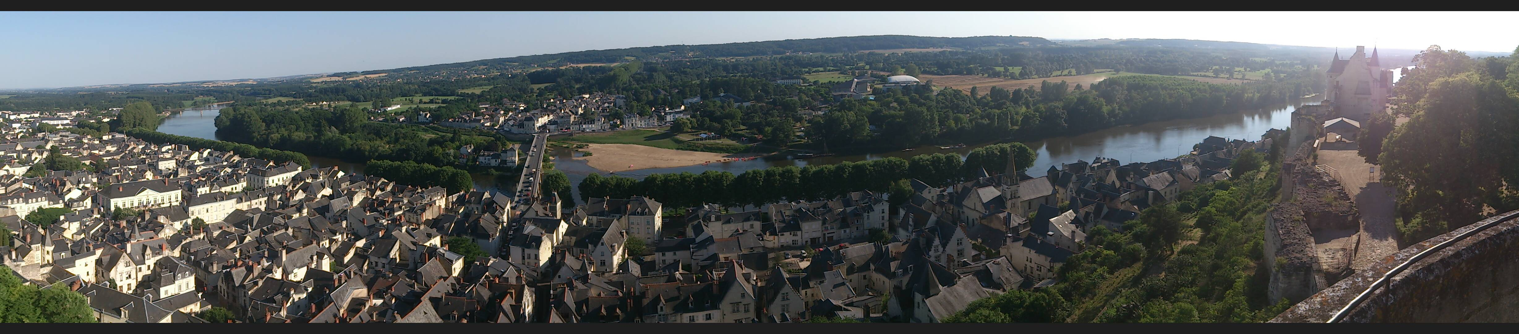 Chinon, panoramic view on city from clock tower